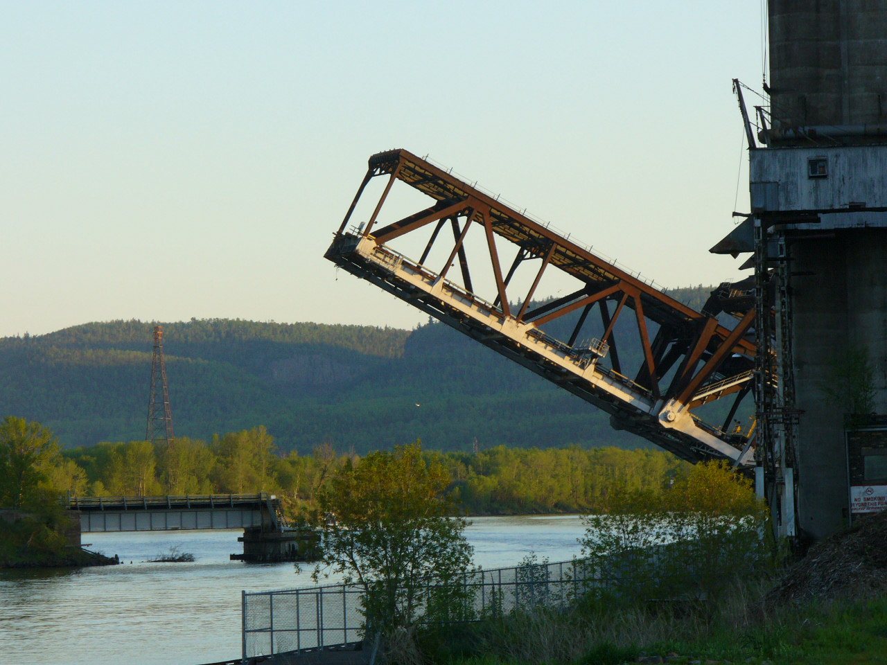 Jackknife Bascule Bridge being raised to let a boat pass. The bridge was completed in 1913 and carries Canadian Pacific Railway tracks. For many years it was a two-level bridge, carrying road traffic on an upper deck, but the upper deck was closed in 2003 and removed in 2004.